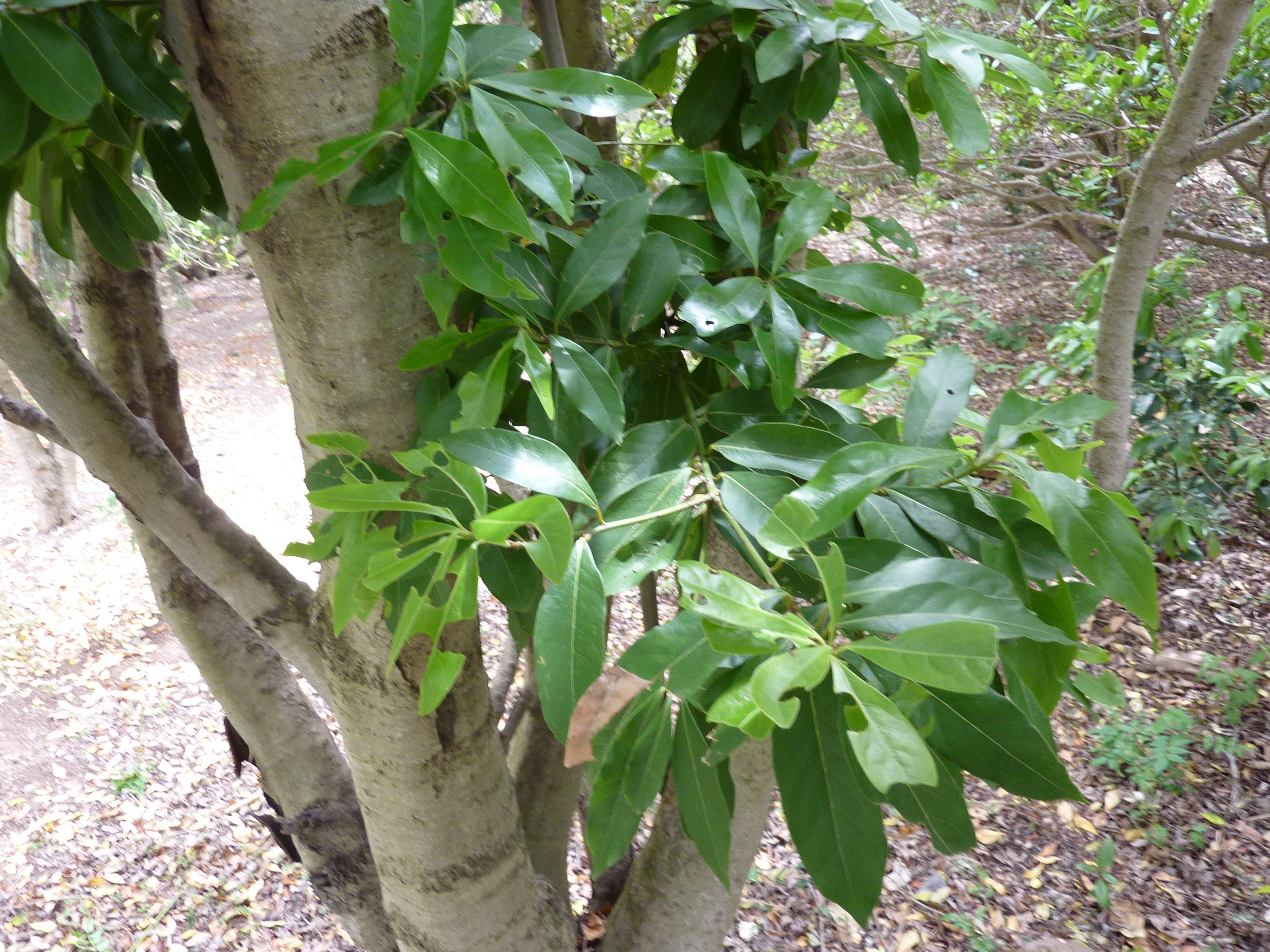 Heberdenia excelsa in the Jardín Botánico Canario Viera y Clavijo, Gran Canaria.